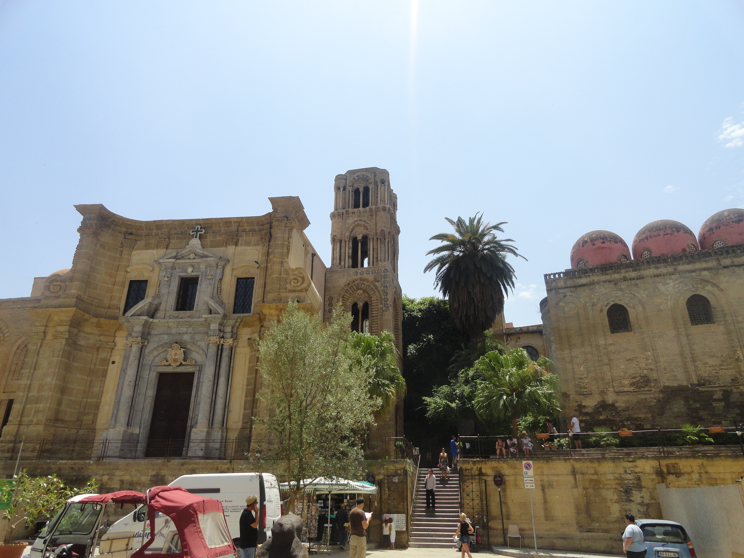 A view from Piazza Bellini to Chiesa di San Cataldo, or the church of St. Cataldo. This square and church are very close to Quattro Canti. By the founder of